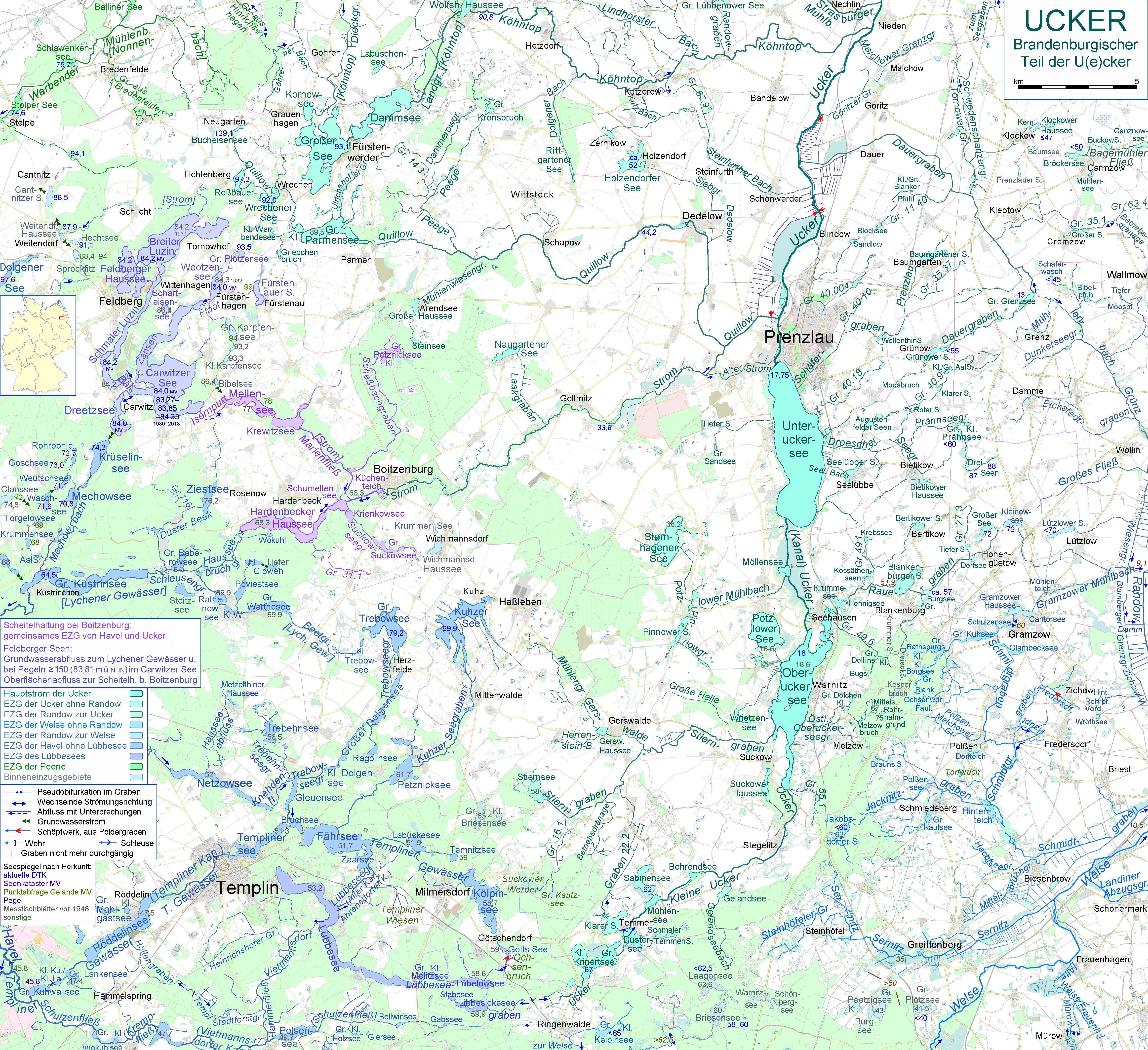 Map of river Ucker from its spring to its tributary Köhntop, which is contained only partly. This map may be incomplete, and may contain errors. Don't rely solely on it for navigation.